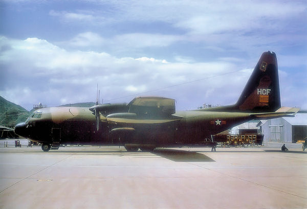 A Lockheed C-130A-45-LM Hercules (s/n 57-0460) at Tan Son Nhut Air Base, South Vietnam, in 1972. The aircraft served with the South Vietnamese Air Force (VNAF) from October 1972 to April 1975. During the fall of Saigon in 1975, it was flown from Tan Son Nhut Air Base to Singapore, carrying about 350 Vietnamese. Returned to USAF service in August 1975, it was assigned to the 16th Special Operations Squadron (SOS) at Korat Royal Thai Air Force Base, Thailand, then used by the United States Air Force Air National Guard before being retired in 1989. Today, this aircraft is part of the National Air and Space Museum, Washington D.C. (USA).